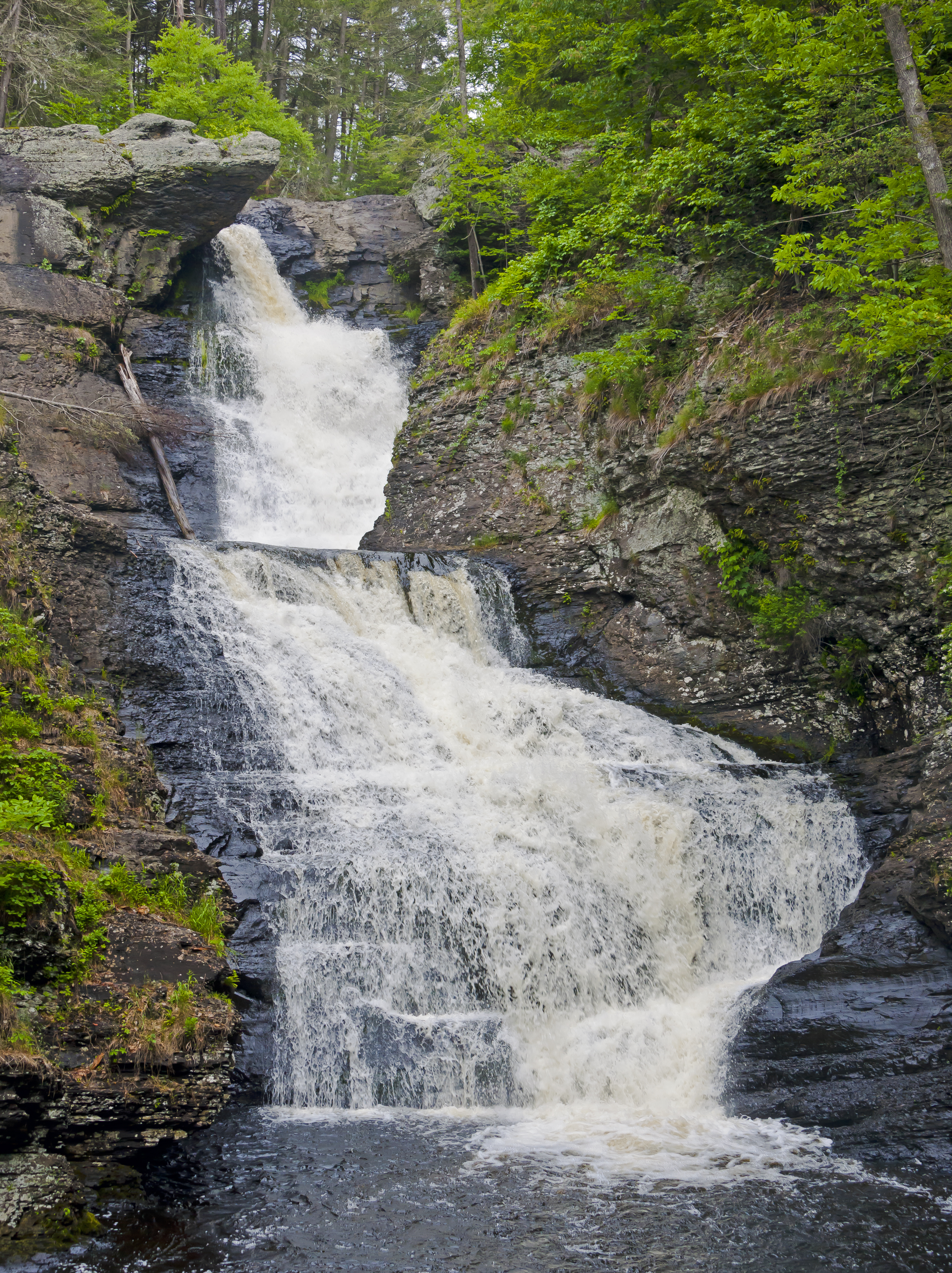 Middle and lower cascades of Raymondskill Falls, seen from the pool at the bottom of the falls